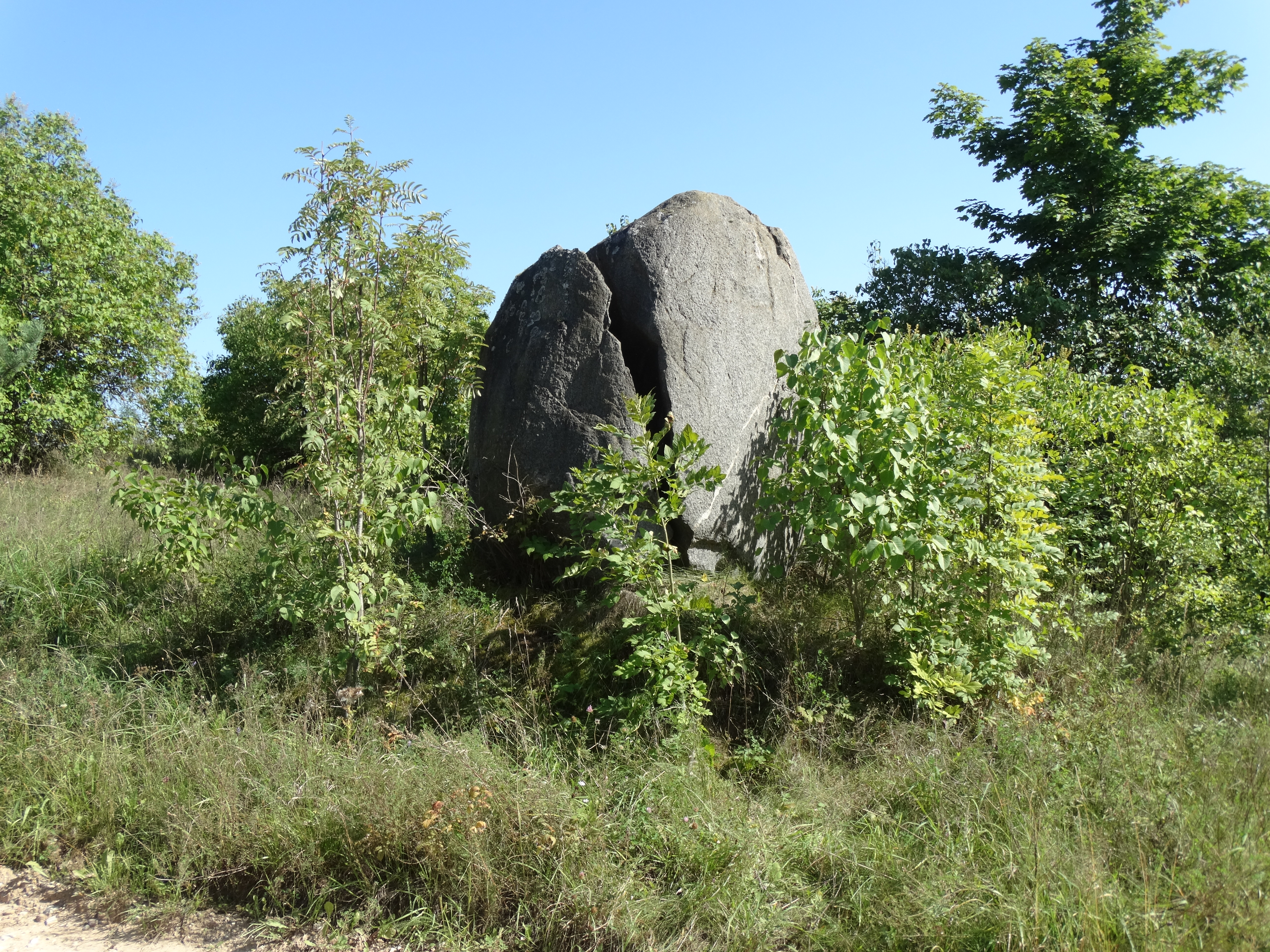 Grybai, Švenčionys District, Lithuania